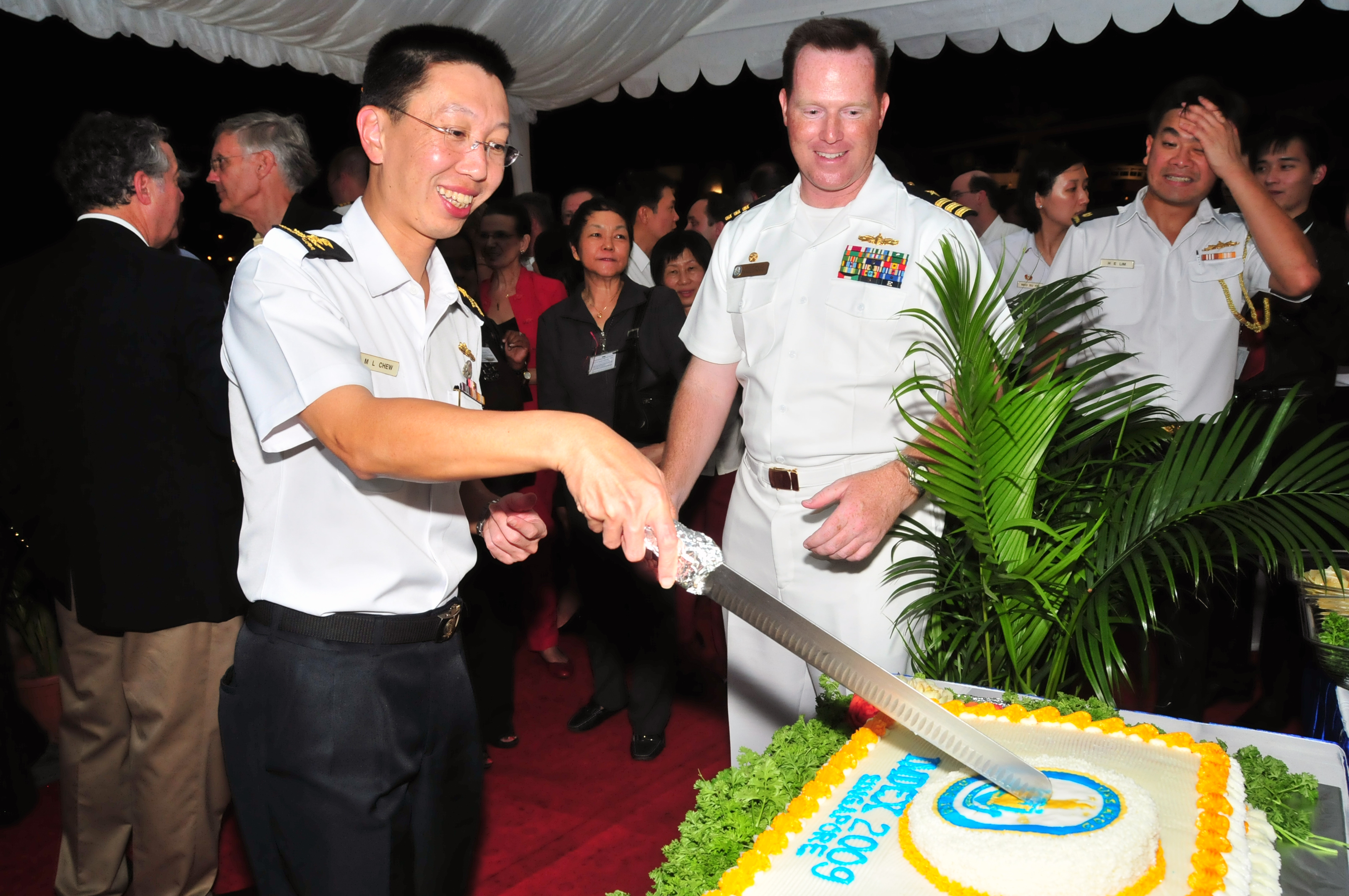 SINGAPORE CITY, Singapore (May 13, 2009) Commanding Officer of Arleigh Burke-class guided missile destroyer USS Kidd (DDG 100), Cmdr. Chuck Good, participates in a cake cutting ceremony with Chief of Republic of Singapore Navy, Rear Adm. Chew Men Leong, during the International Maritime Defense Exhibition Asia 2009, a biennial conference showcasing the latest in maritime defense technology. Kidd is part of John C. Stennis Carrier Strike Group and is in Singapore for a port visit as part of a scheduled six-month deployment to the western Pacific Ocean. (U.S. Navy photo by Ensign Alexis F. Steele/Released)